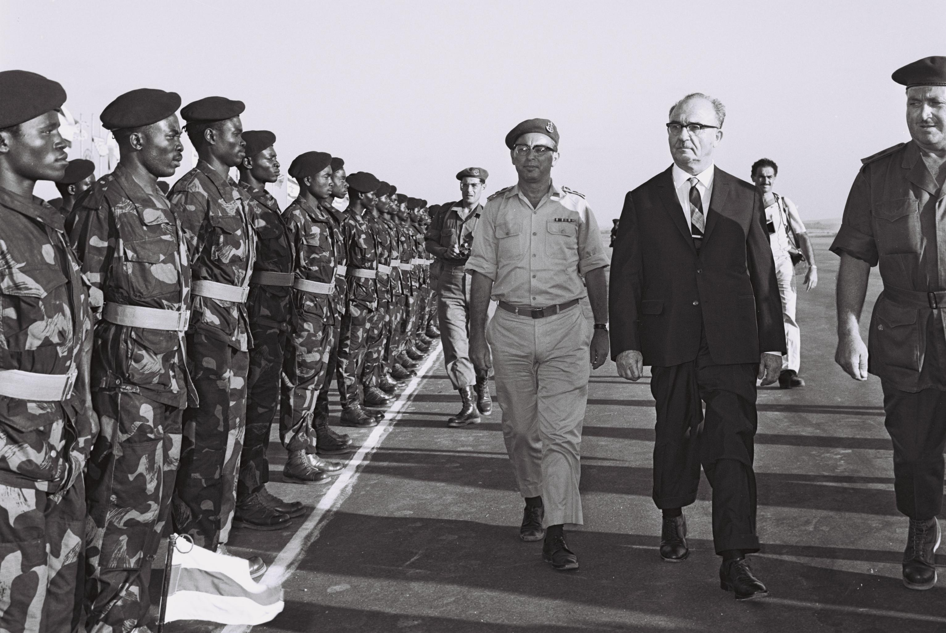 Prime minister Levy Eshkol and chief of staff Zur at graduation ceremony of congolese paratroopers, training base in Israel.